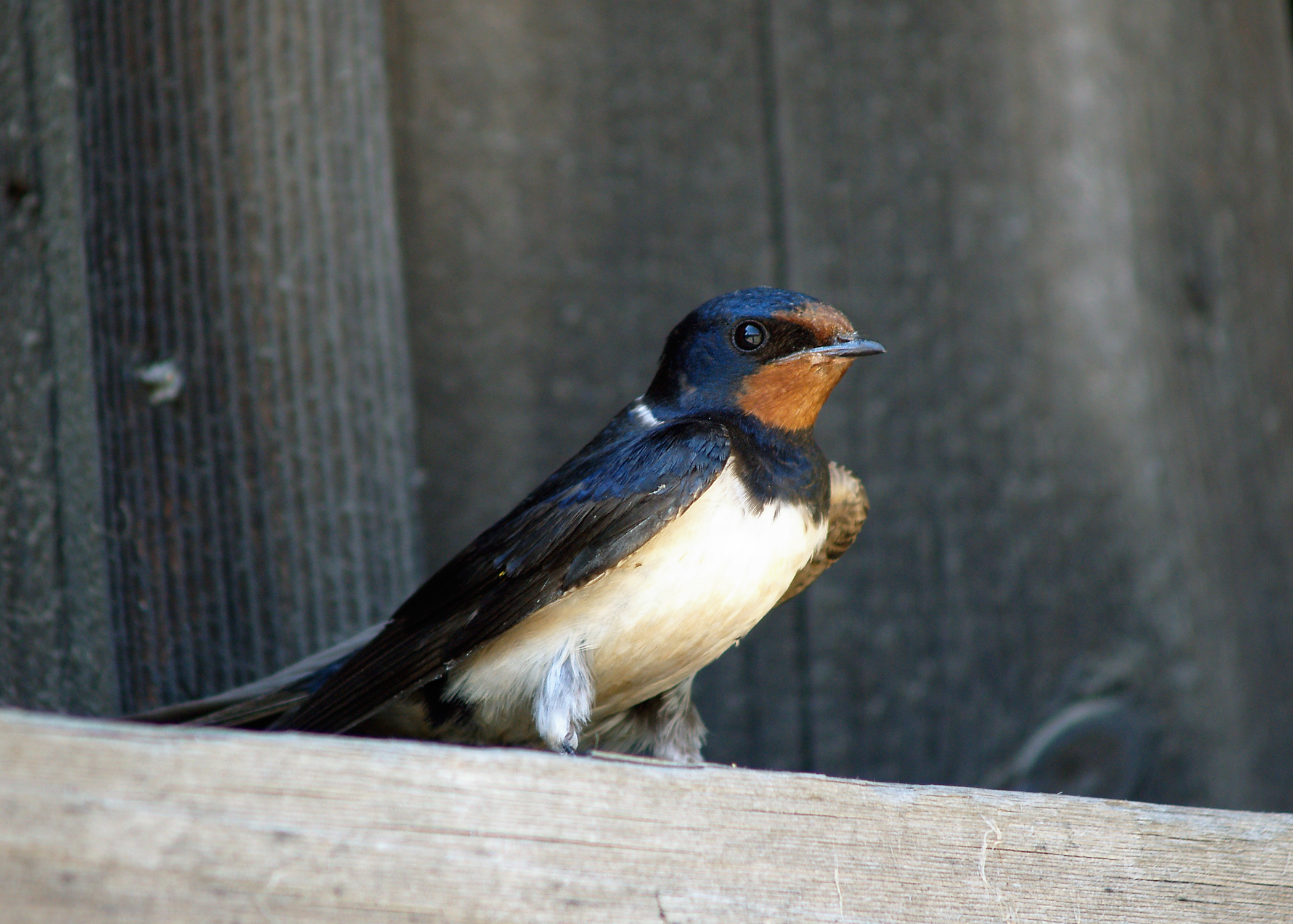 Barn Swallow (Hirundo rustica)